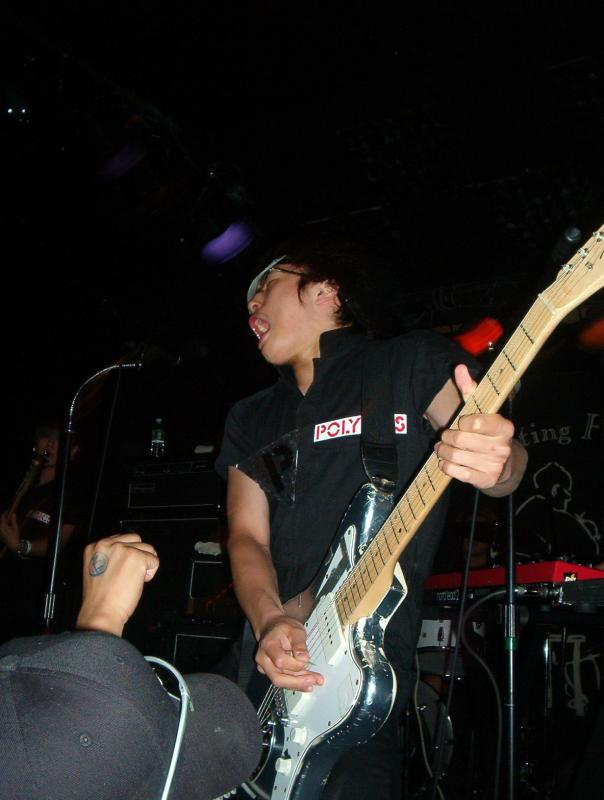 Photo taken at a POLYSICS concert at the Knitting Factory in Manhattan on 30 September 2003 by User:DarKrow.